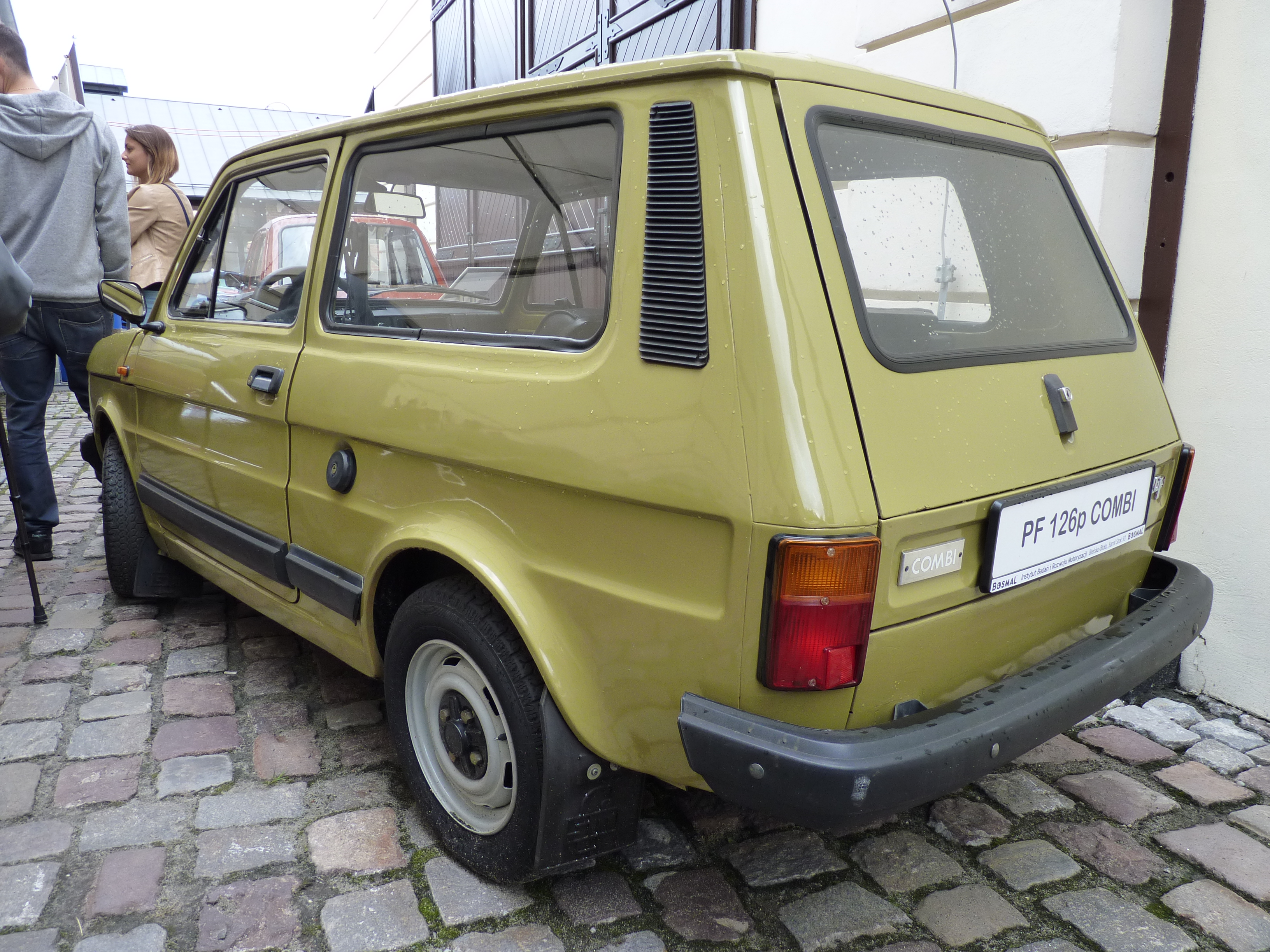 Classic Moto Show 2015 in Kraków.